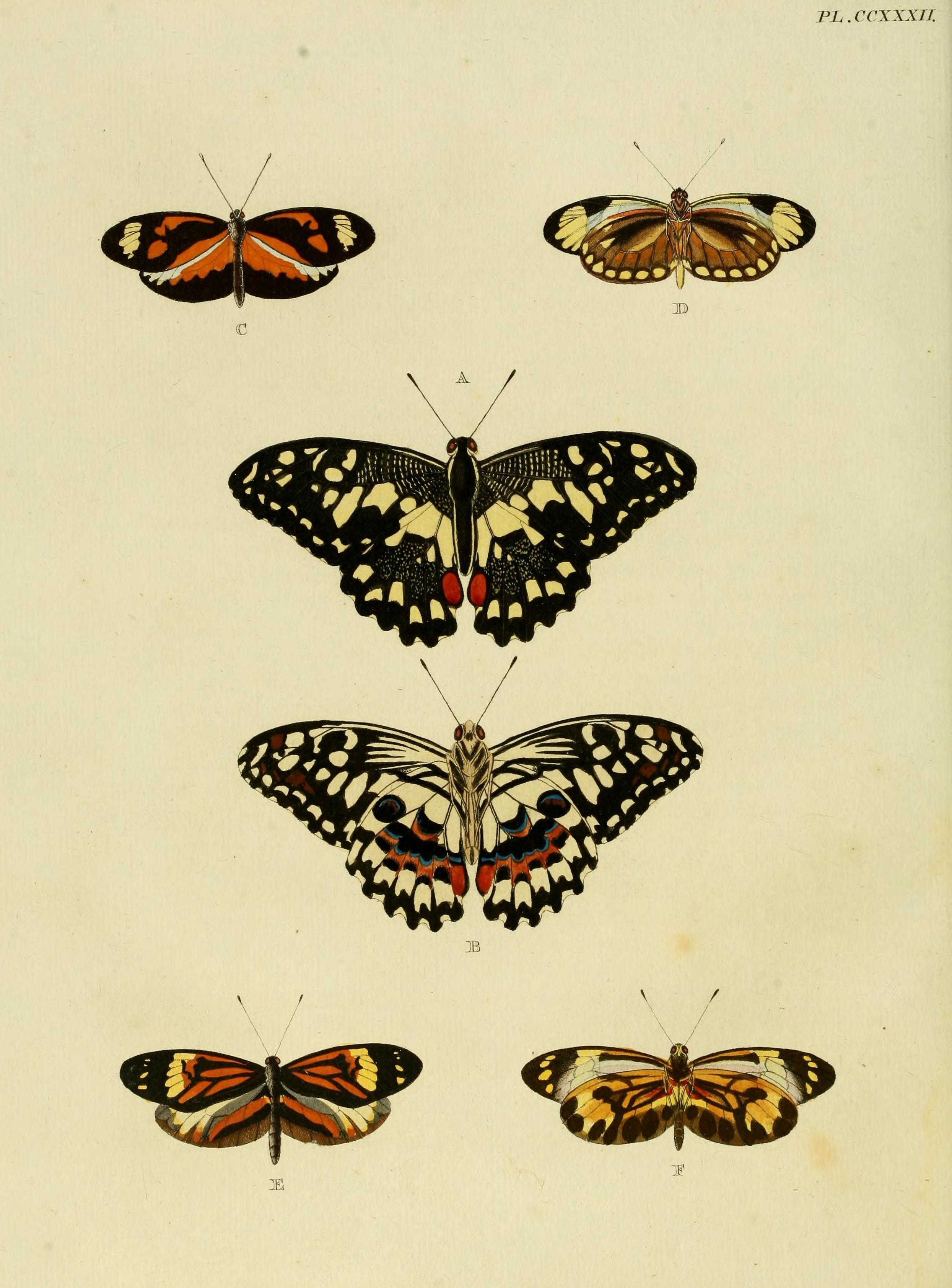 Plate CCXXXII A, B: "(Papilio) Erithonius"( = Papilio demoleus Linnaeus, 1758), see Funet . Also on preceding page (231 A, B) as "(Papilio) Demoleus". C, D: "(Papilio) Laja" ( = Dismorphia laja (Cramer, [1779]), iconotype?), see Funet. E, F: "(Papilio) Amphione" ( = Dismorphia amphione (Cramer, [1779]), iconotype?), see Funet. In register spelled "AMPHIONA".